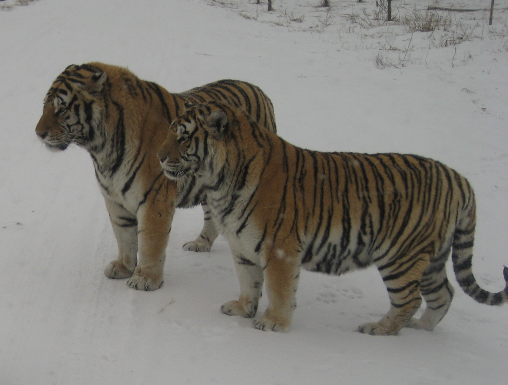 Harbin Siberian Tiger Park